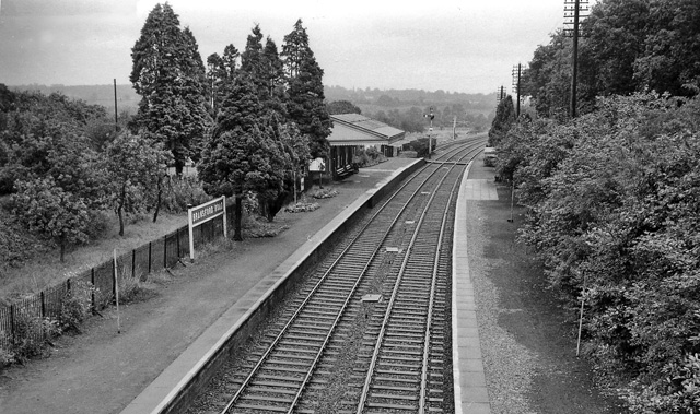 Bransford Road Station. View NE, towards Worcester; ex-Great Western, Worcester - Hereford main line. Station closed 5/4/65.